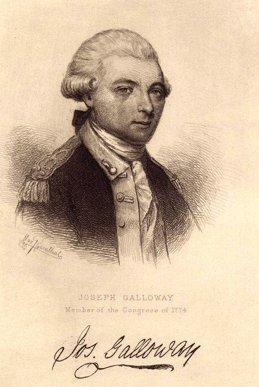 Drawing of Joseph Galloway, by Thomas Emmet, 1885